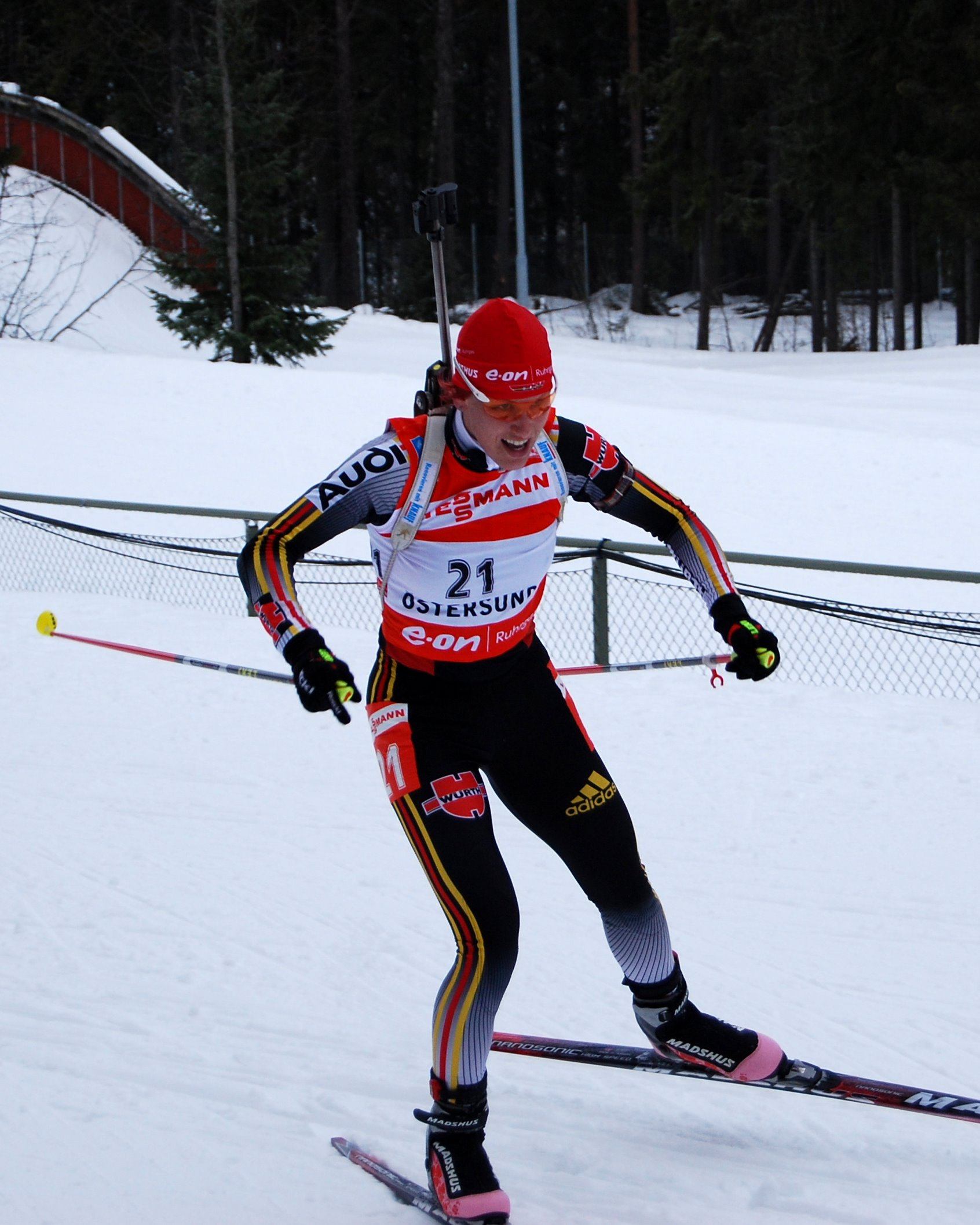 German biathlete Kati Wilhelm during the World Championships in Östersund 2008.